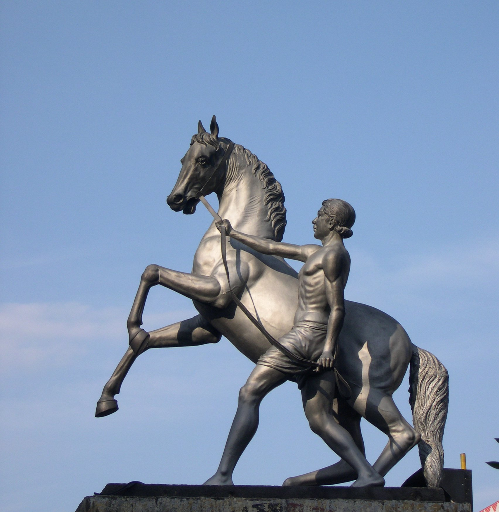 Equestrian statue in Anna Salai, Chennai. This statue was installed some time in 70's in remembrance of abolition of Horse Racing in Chennai. There were reports that statue of the man is made with the features of Vandhiya Thevan of Kalki's Ponniyin Selvan. Two identical statues are installed on both sides of Anna Flyover. This is one facing Uthmar Gandhi Salai (i.e.Nungambakkam High Road)